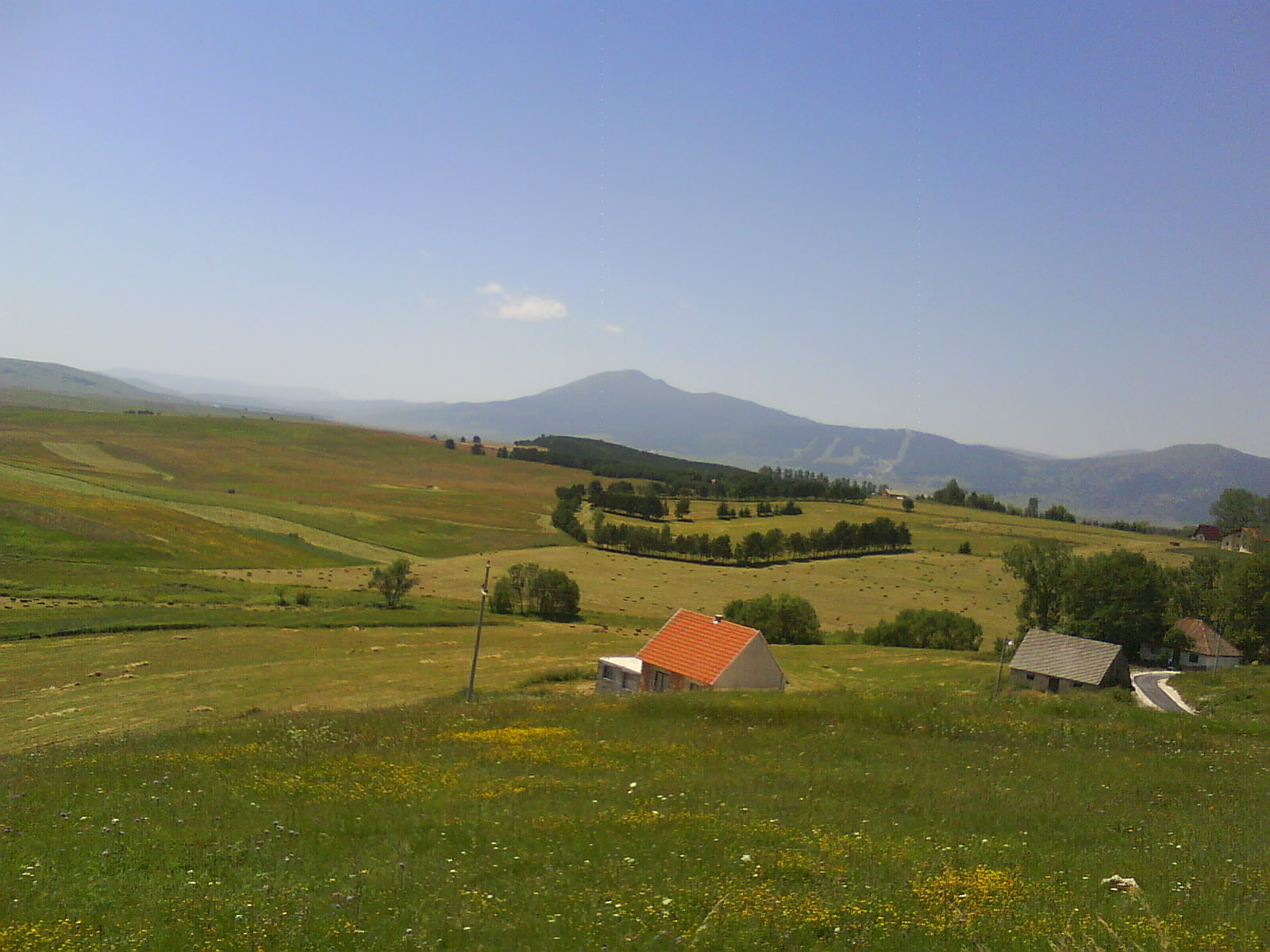 Kupres field